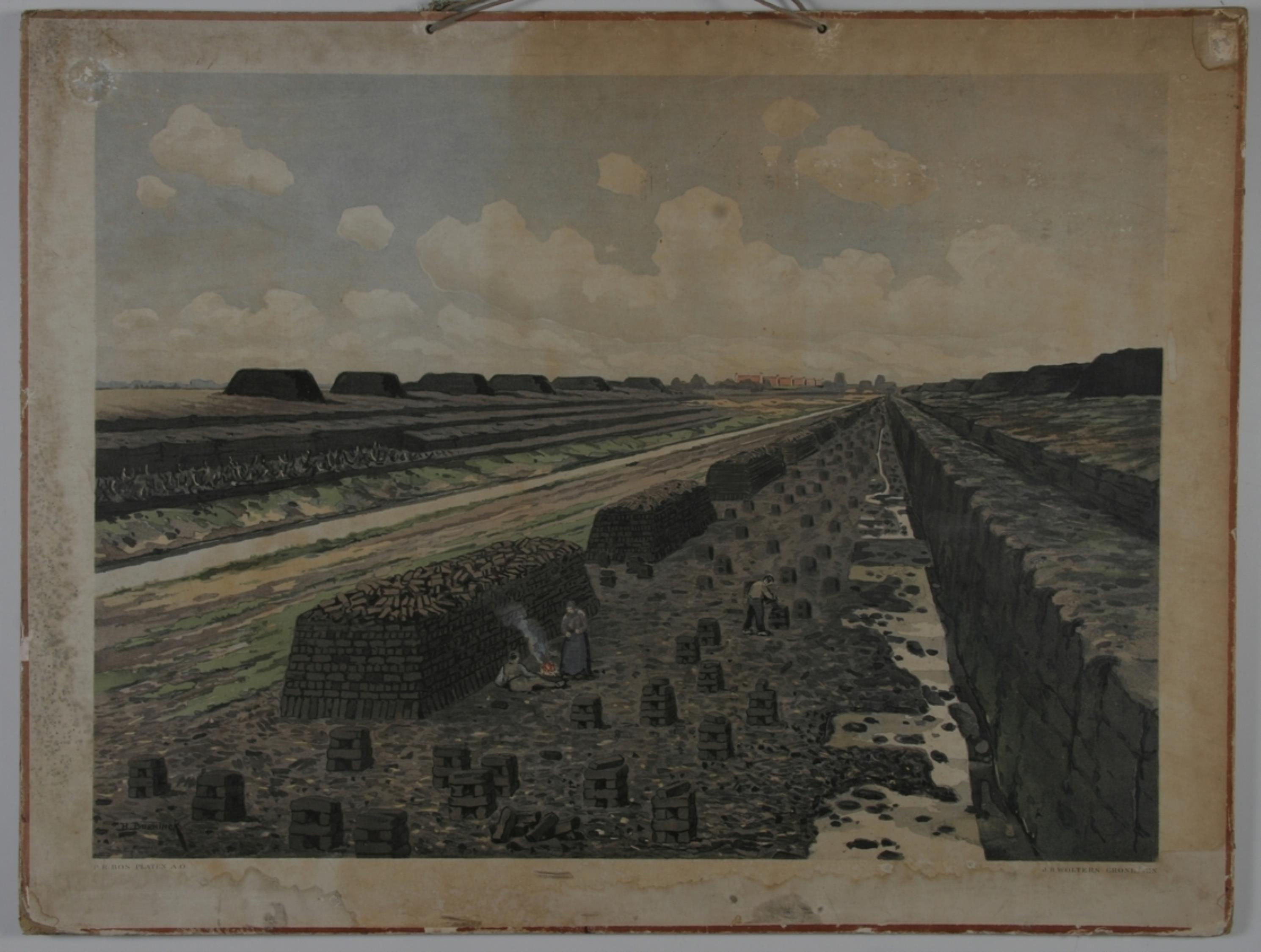 Educational wall picture formerly used in primary schools in the Netherlands. Here: "Peat bog in Drenthe", published in 1915 by J B Wolters in Groningen. Collection Centre Céramique, Maastricht, the Netherlands.